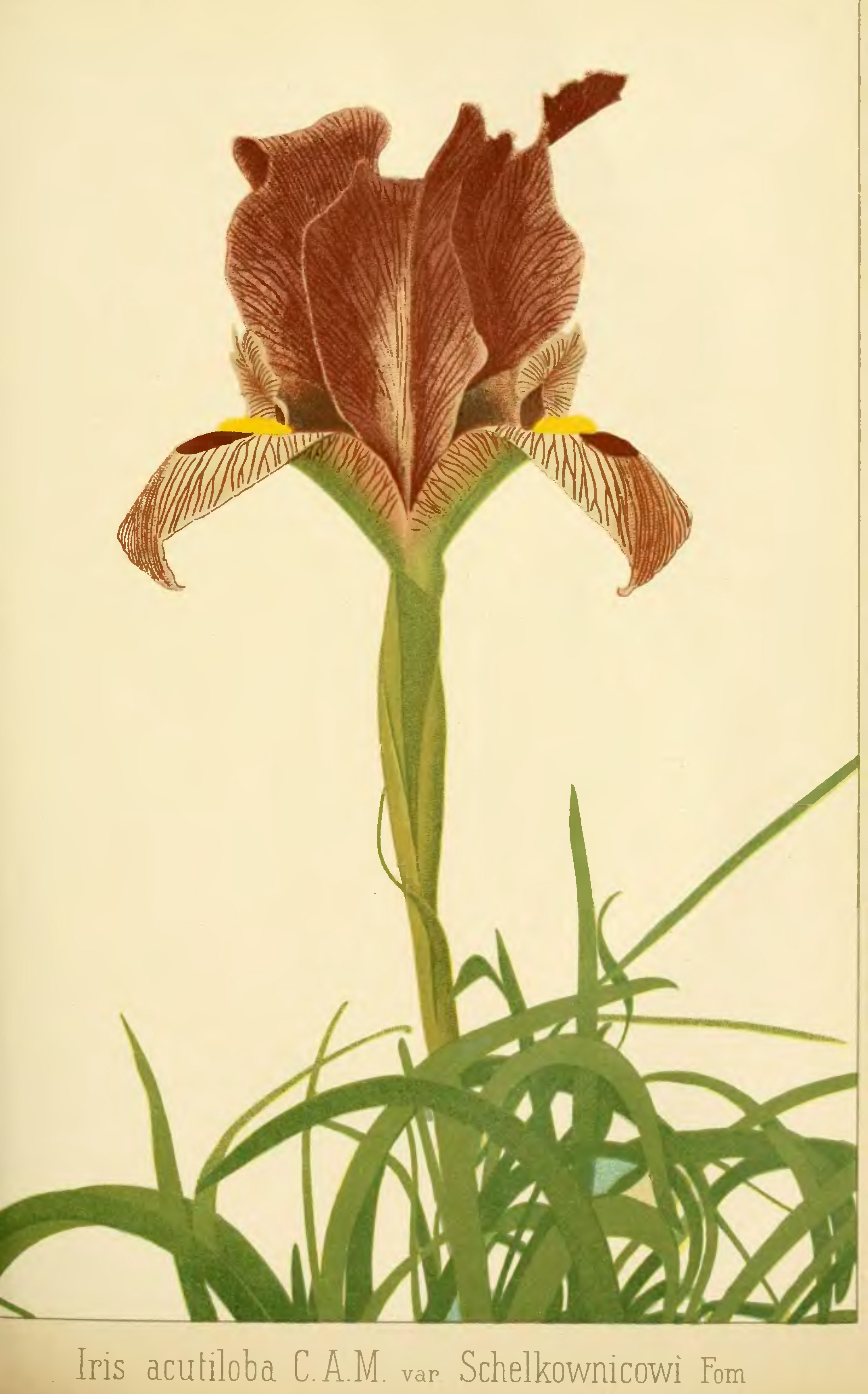 Iris acutiloba C.A.Mey. var. schelkownicowi Fom.